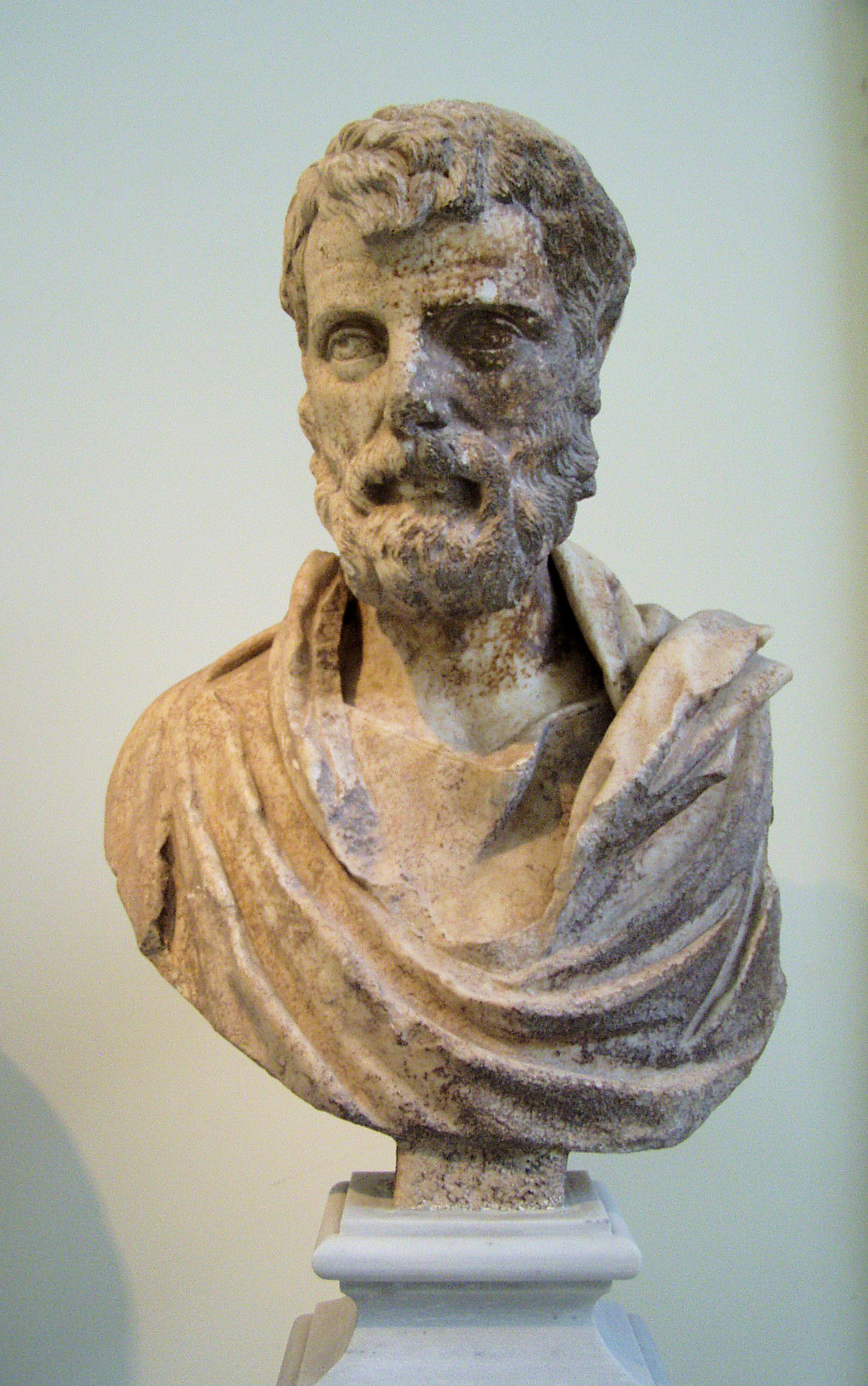 Portrait bust of Herodes Atticus at the NAMA, Nr 4810.